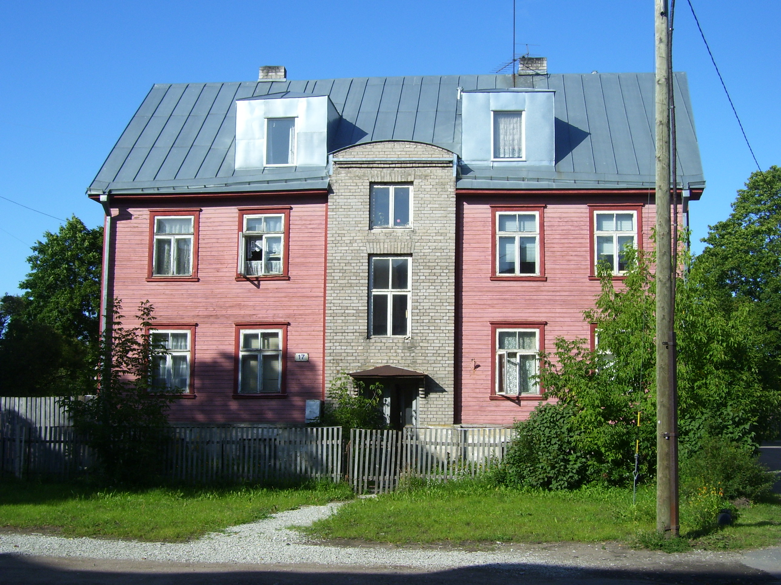 Estonia, Tallinn, Juurdeveo street, Nr. 17.